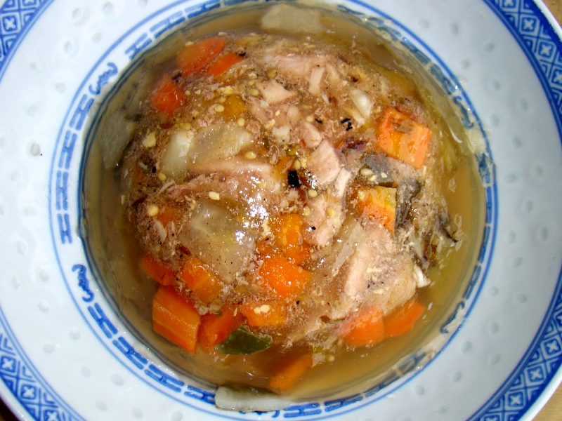 Jellied pig's feet aka cold legs